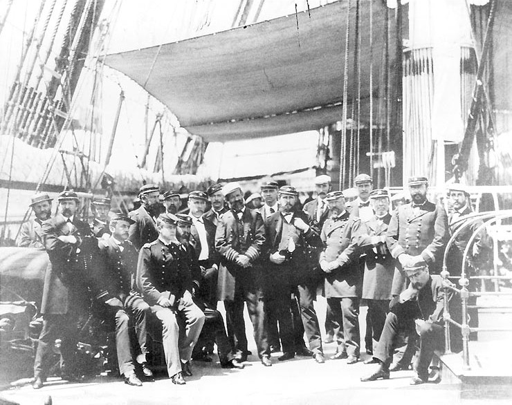 Officers of the USS Colorado, photographed on the deck during the Korean expedition, June 1871. From left to right, Lt. Hugh McKee is the first person seated on the left. Photo #: NH 63679